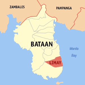 Map of Bataan showing the location of Limay